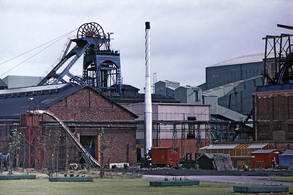 Thurcroft Colliery, 2nd August 1977